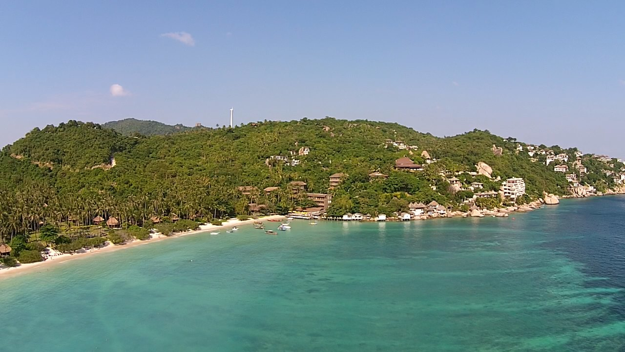 Thian Og bay